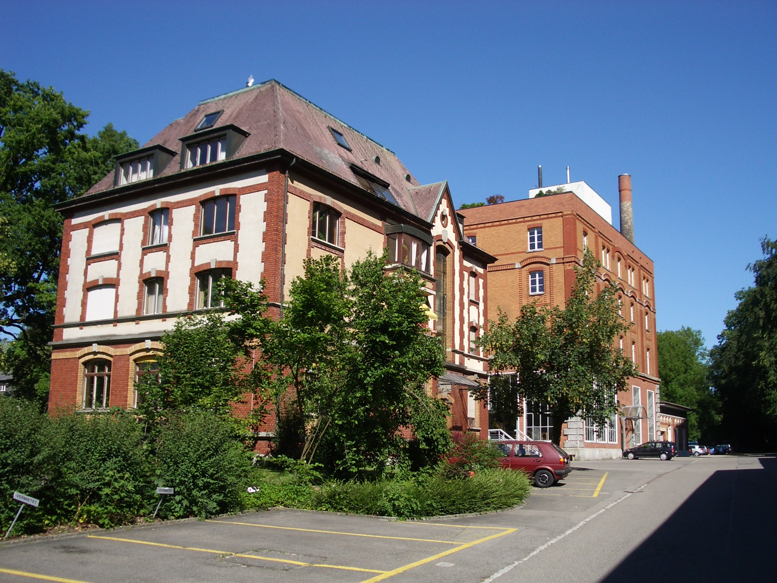 Uster ZH, Switzerland